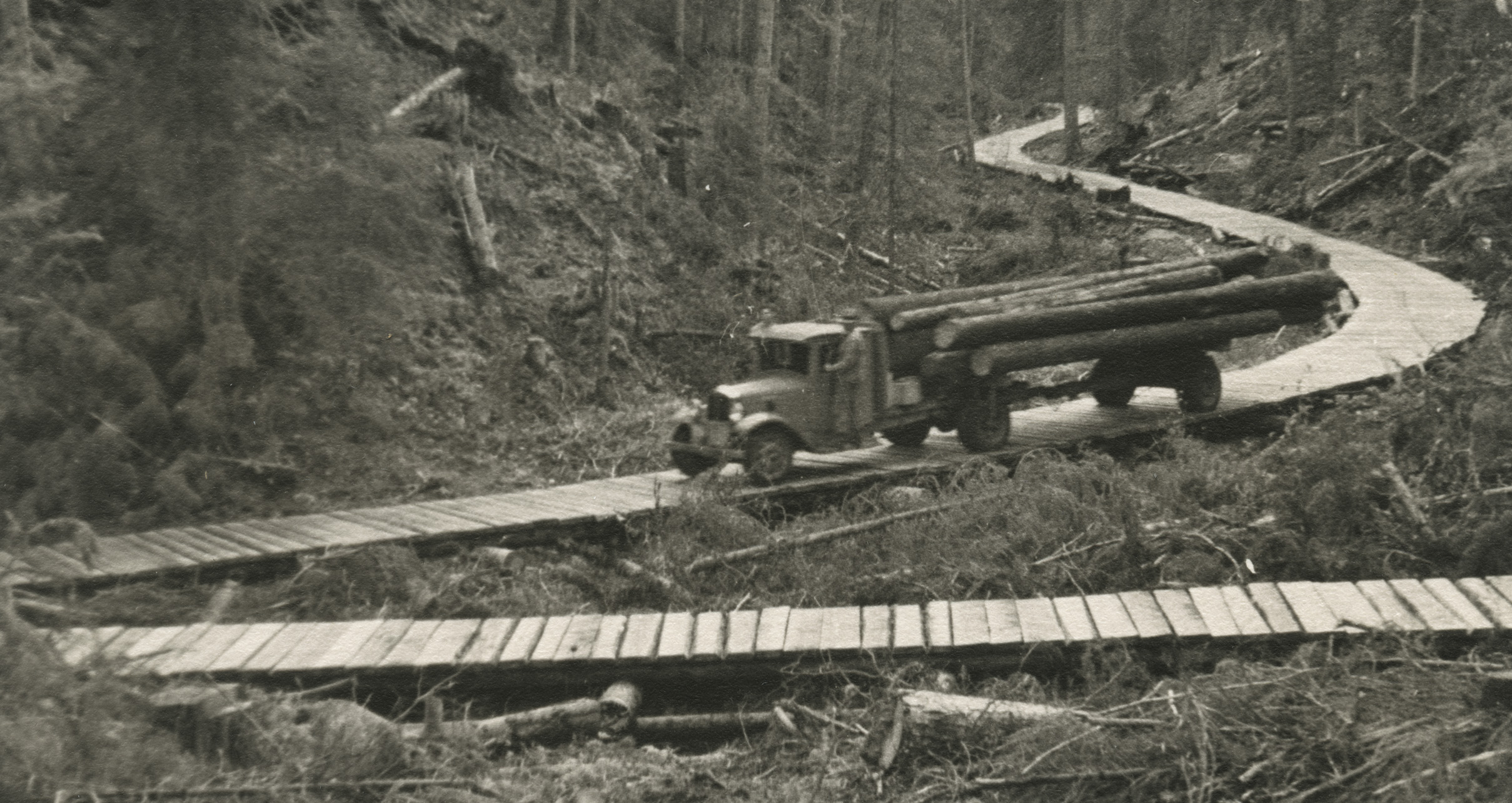 Creator: [Unknown] Date Created: 1936 Source: Original Format: University of British Columbia. Library. Rare Books and Special Collections. Peter Anderson fonds. Permanent URL: Project Website